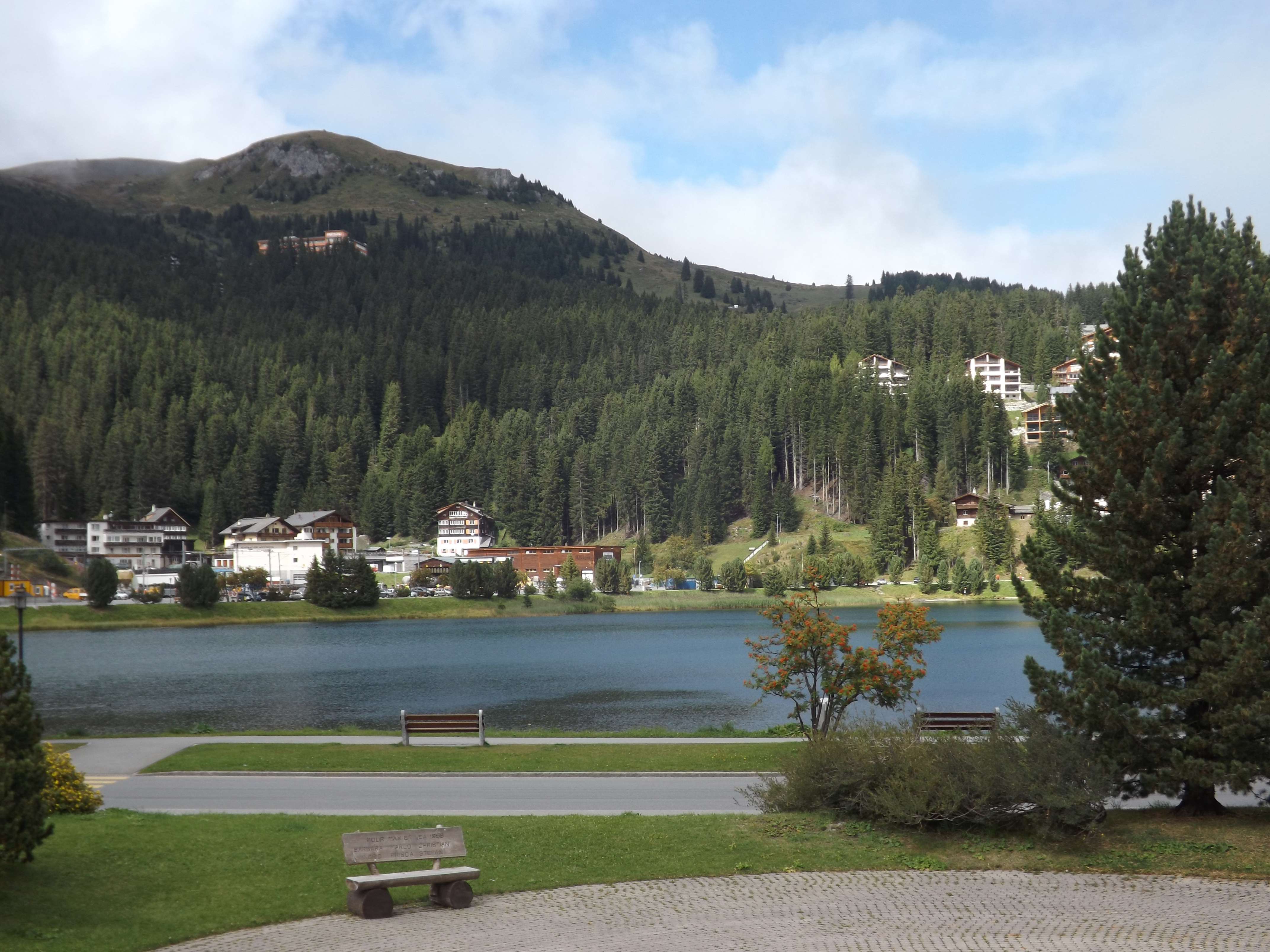 Arosa desde las instalaciones deportivas